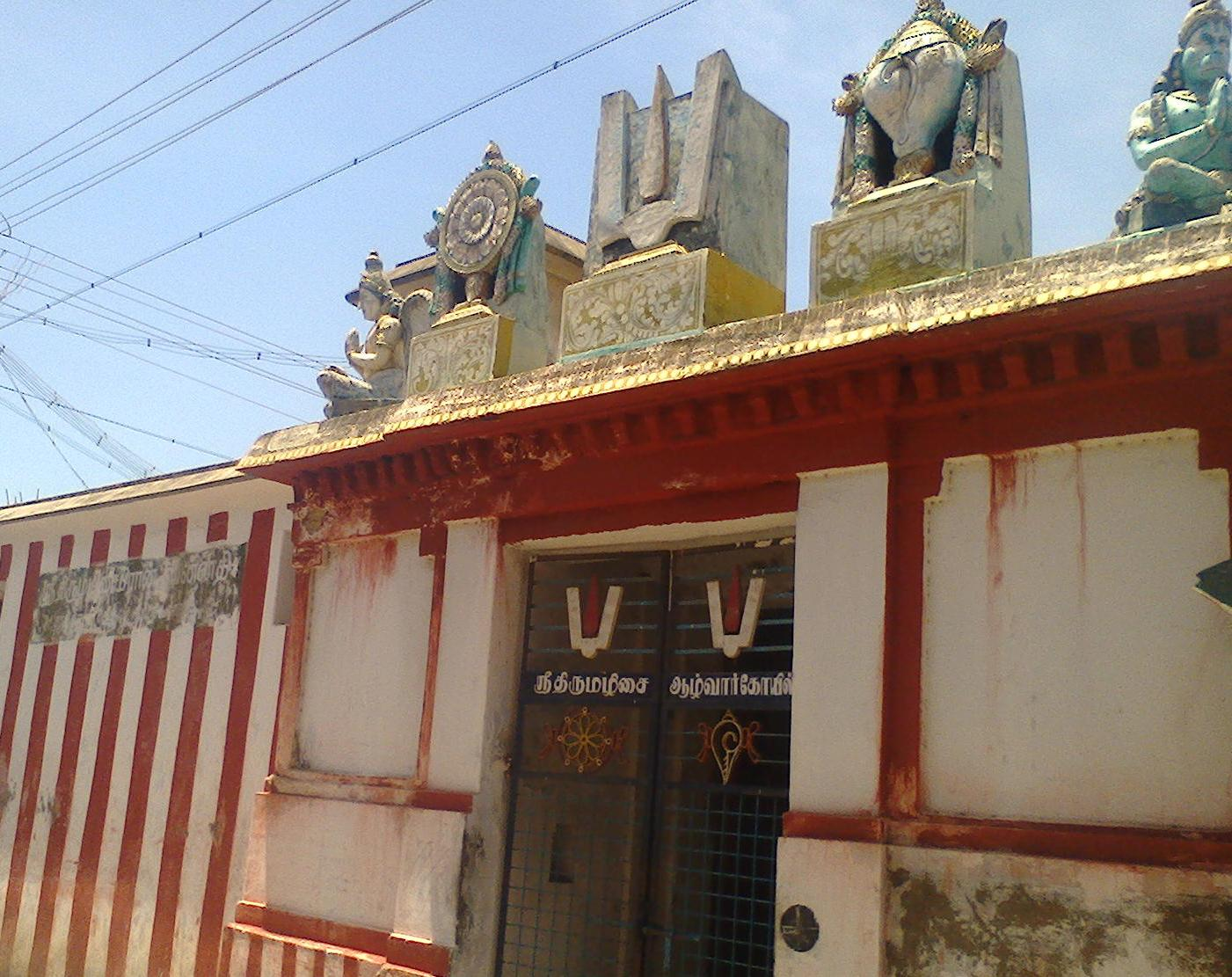 Kumbakonam Tirumalisai alwar temple கும்பகோணம் திருமழிசையாழ்வார் கோயில்